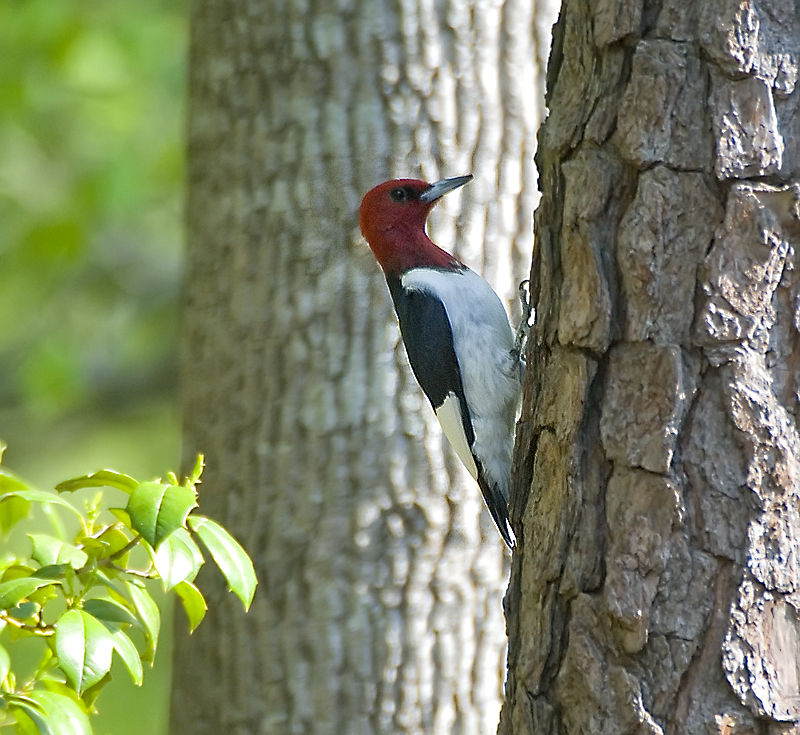 Red-headed Woodpecker on a tree trunk in USA.